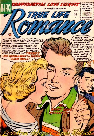 Front cover of True Life Romance #3